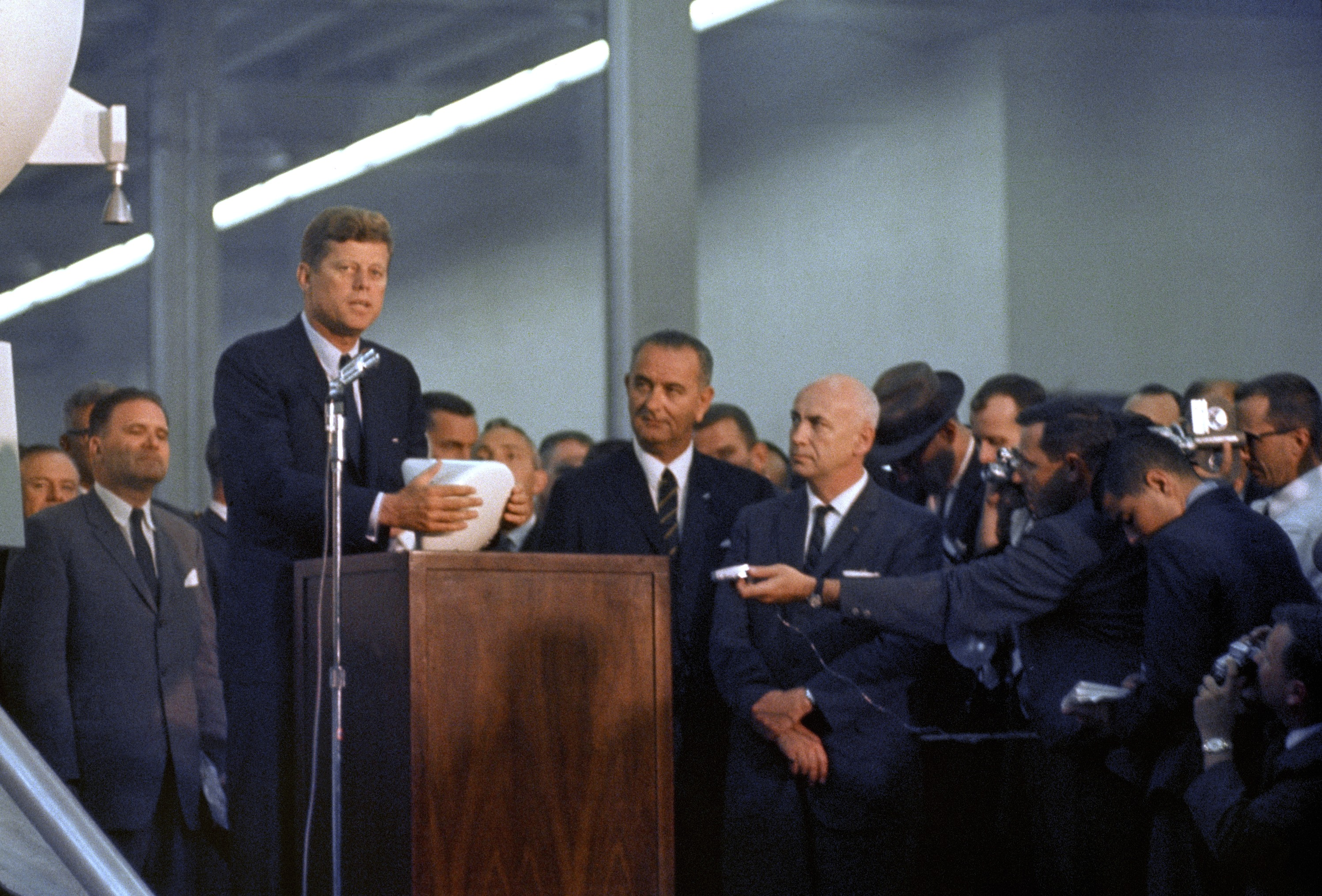 S62-5628 (November 1962) --- President John F. Kennedy speaks to a gathering of media and employees at Site 3 during a 1962 visit. Others seen are Vice-President Lyndon B. Johnson; Dr. Robert R. Gilruth; and James E. Webb, NASA Administrator.